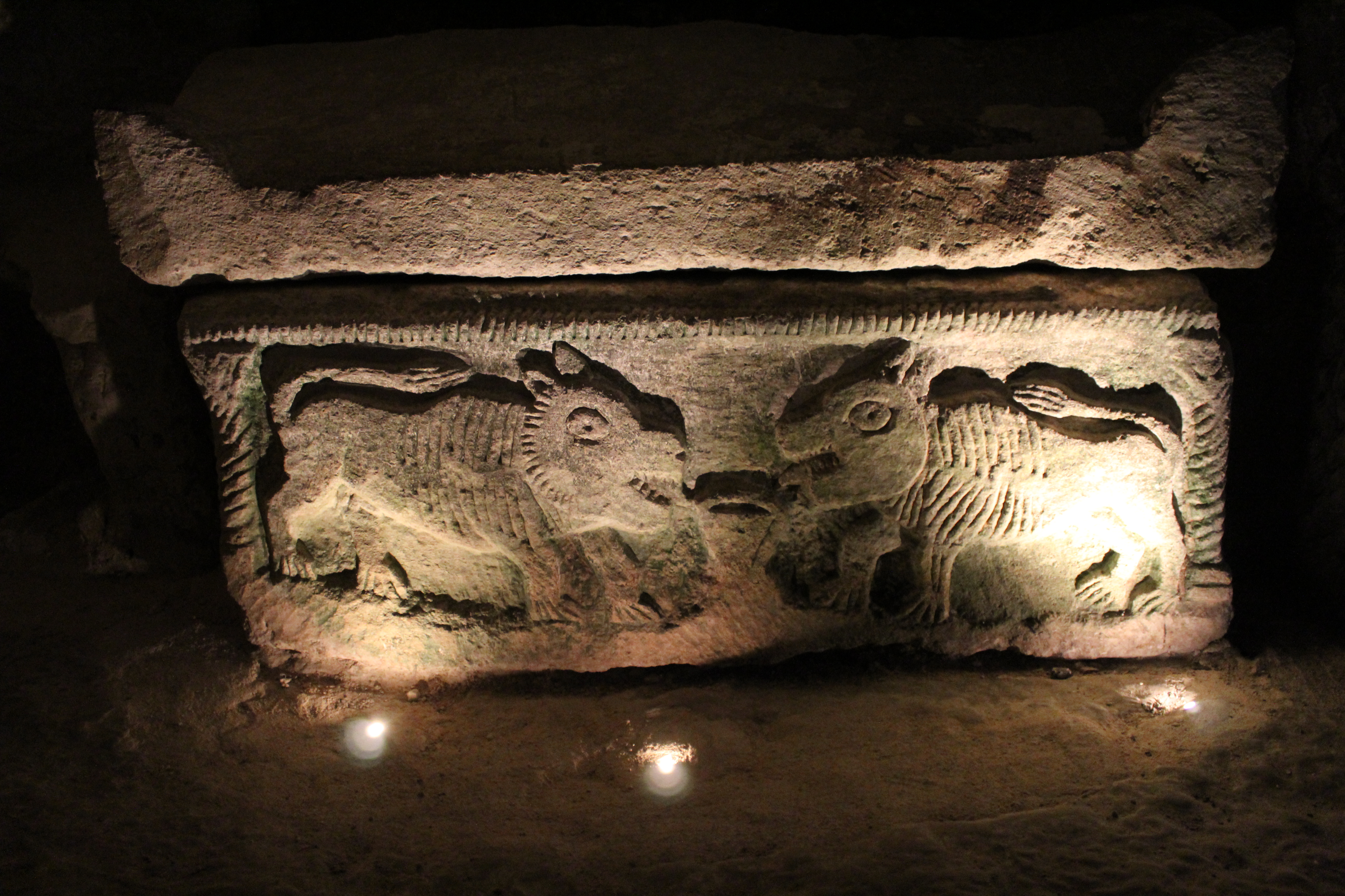 Sarcophagus at Beit Shearim, showing zoomorphic figureSt